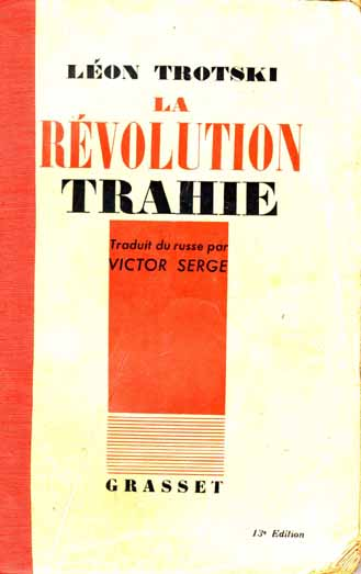 Leon Trotsky - The Revolution Betrayed: What Is the Soviet Union and Where Is It Going? (1936), 13th French ed.